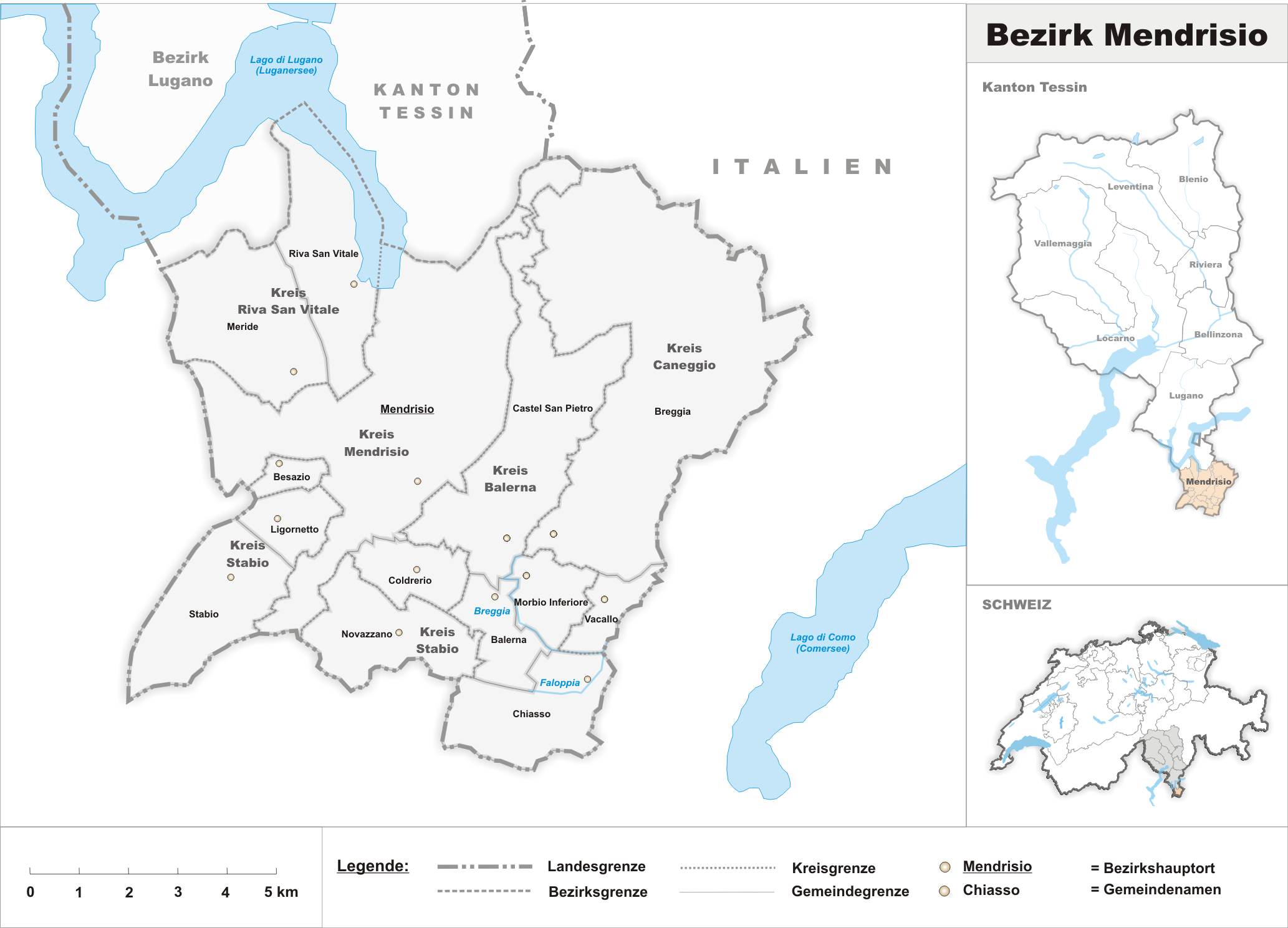 Municipalities in the district of Mendrisio to 10.2009